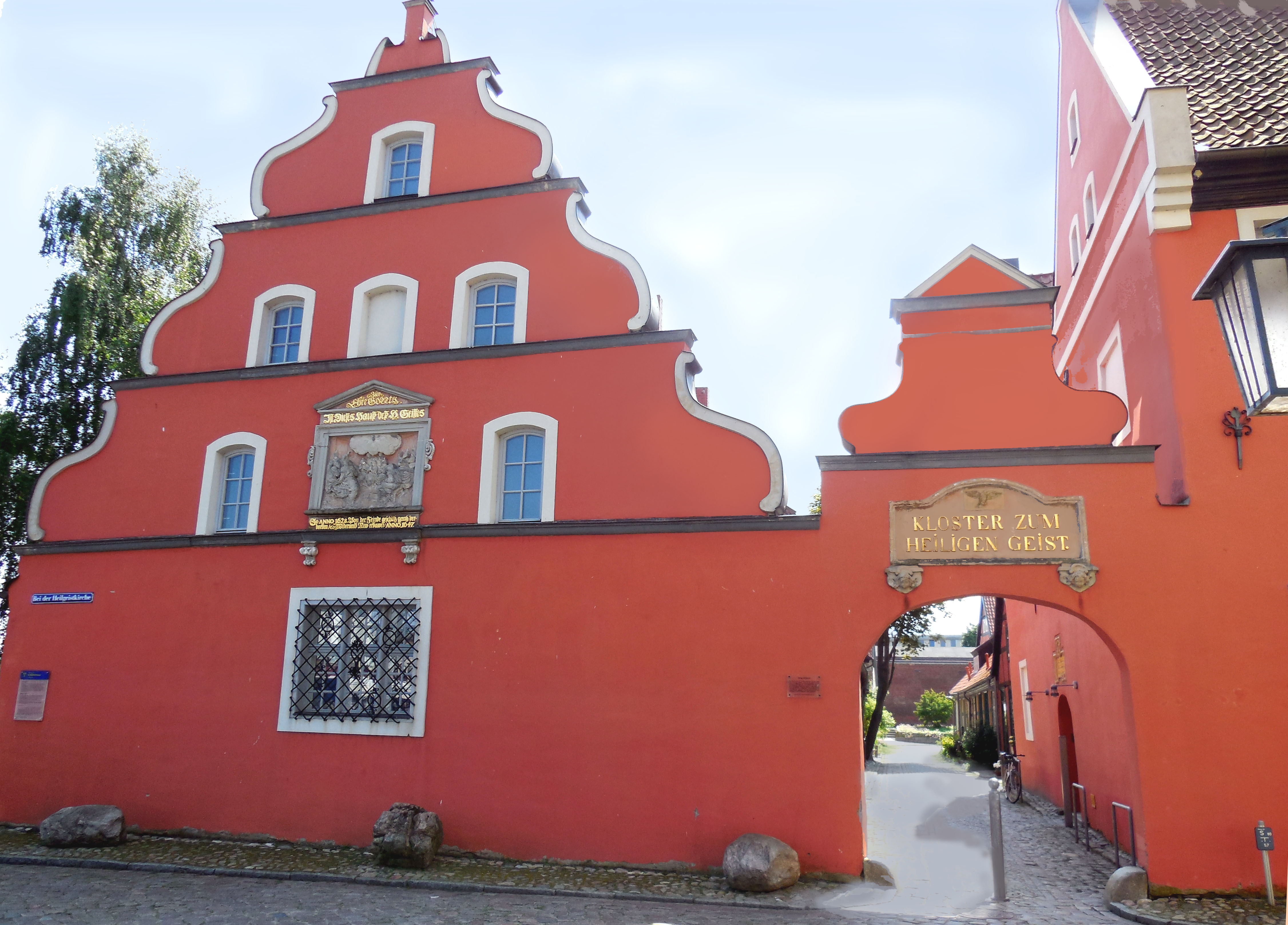 Heilgeistcurch in Stralsund